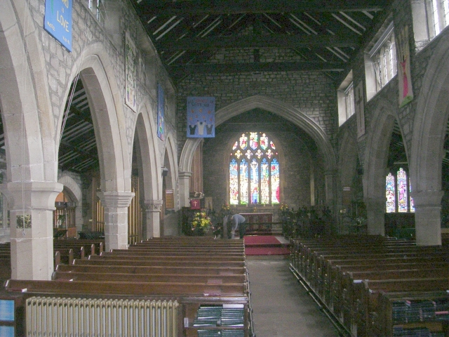 All Saints Church - Nave